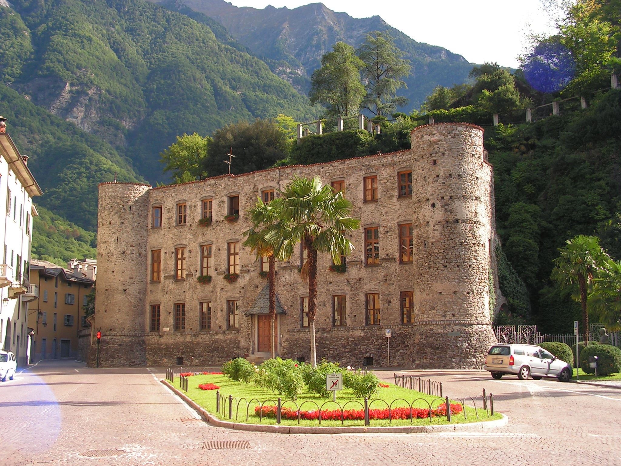 The Castle of Chiavenna